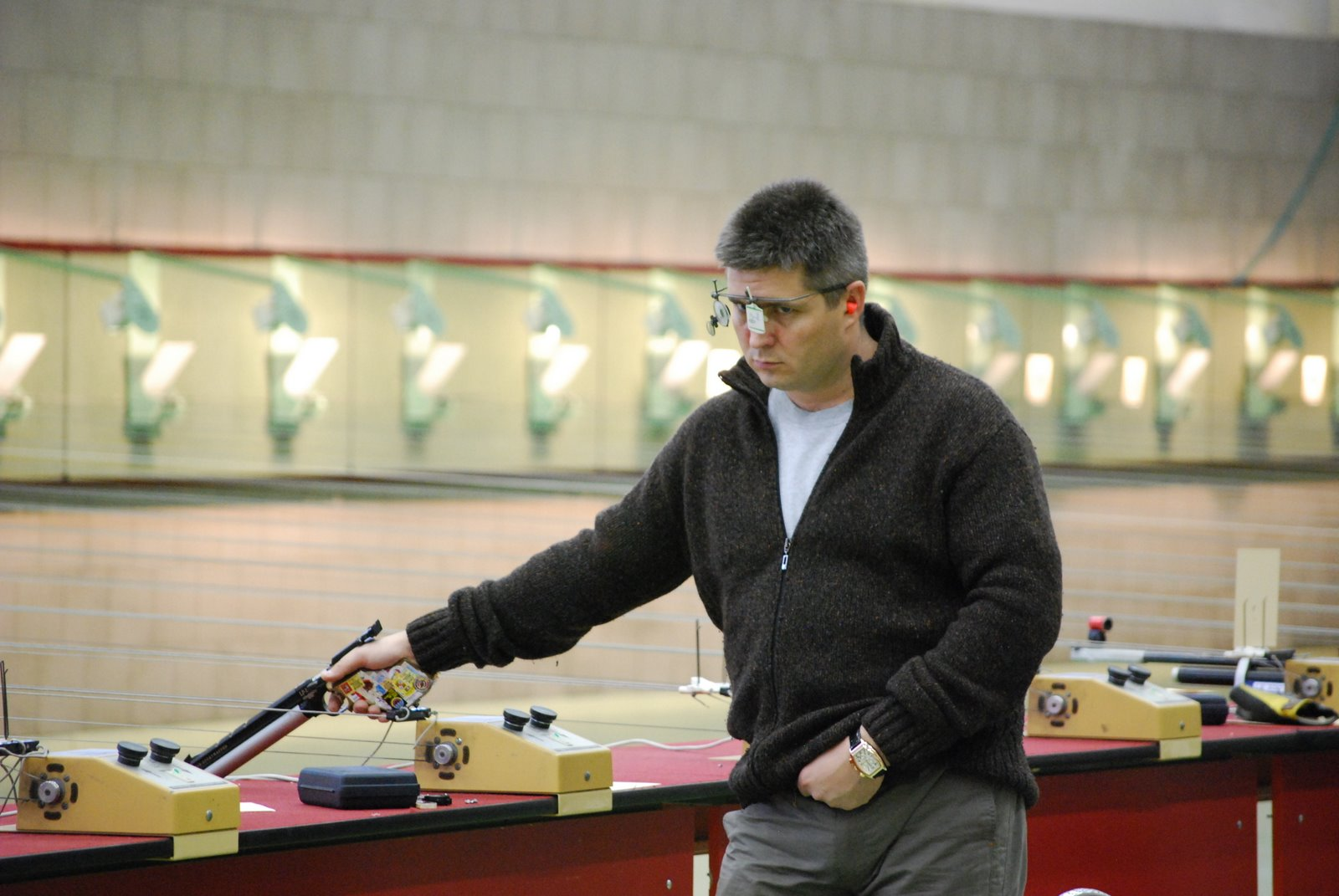 Israeli sport shooter Alexander Danilov in the Grand-Prix of Pilsen. The competitor wears shooting glasses as a visual aid. Though the glasses are extremely customizable, most pairs contain three basic elements: a lens, a mechanical iris (not present in this image), and blinders. These components work together to help shooters focus on both the faraway target and their gun's sights at the same time.